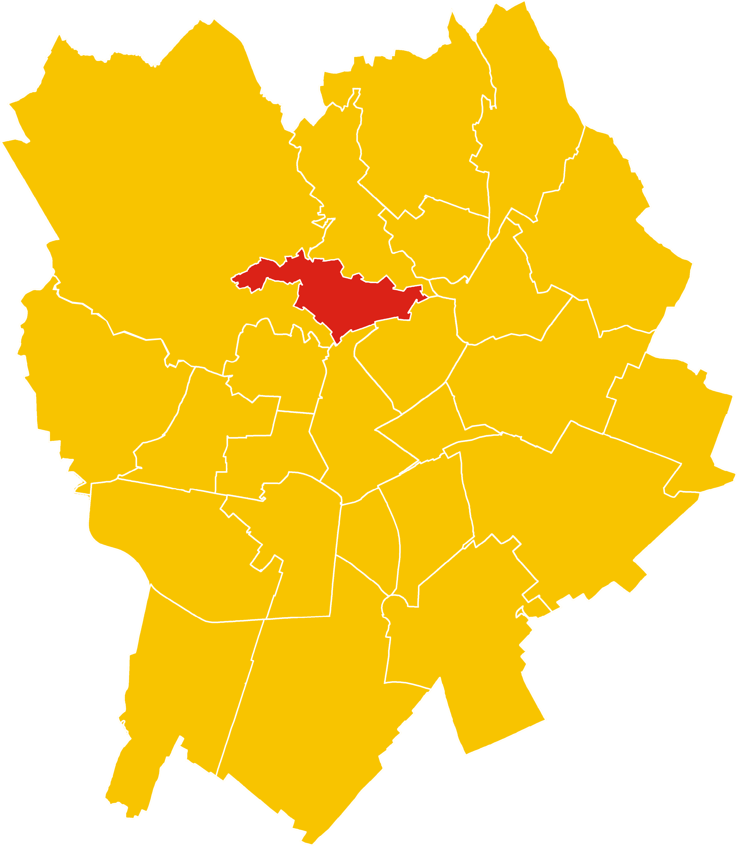 A neighbourhood of Bergamo